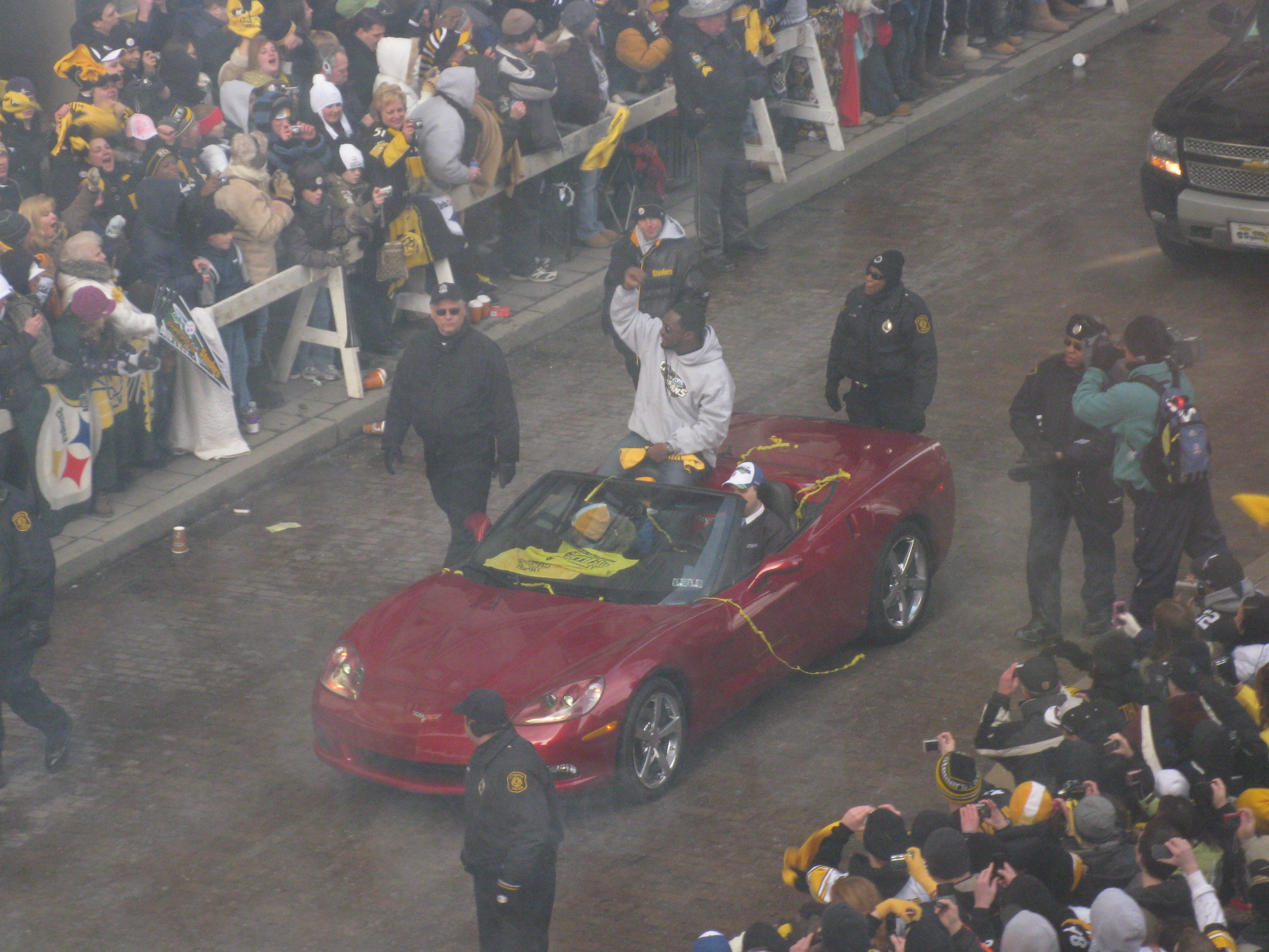 Pittsburgh Steelers coach Mike Tomlin appears in the victory parade on Grant Street in downtown Pittsburgh following Super Bowl XLIII.